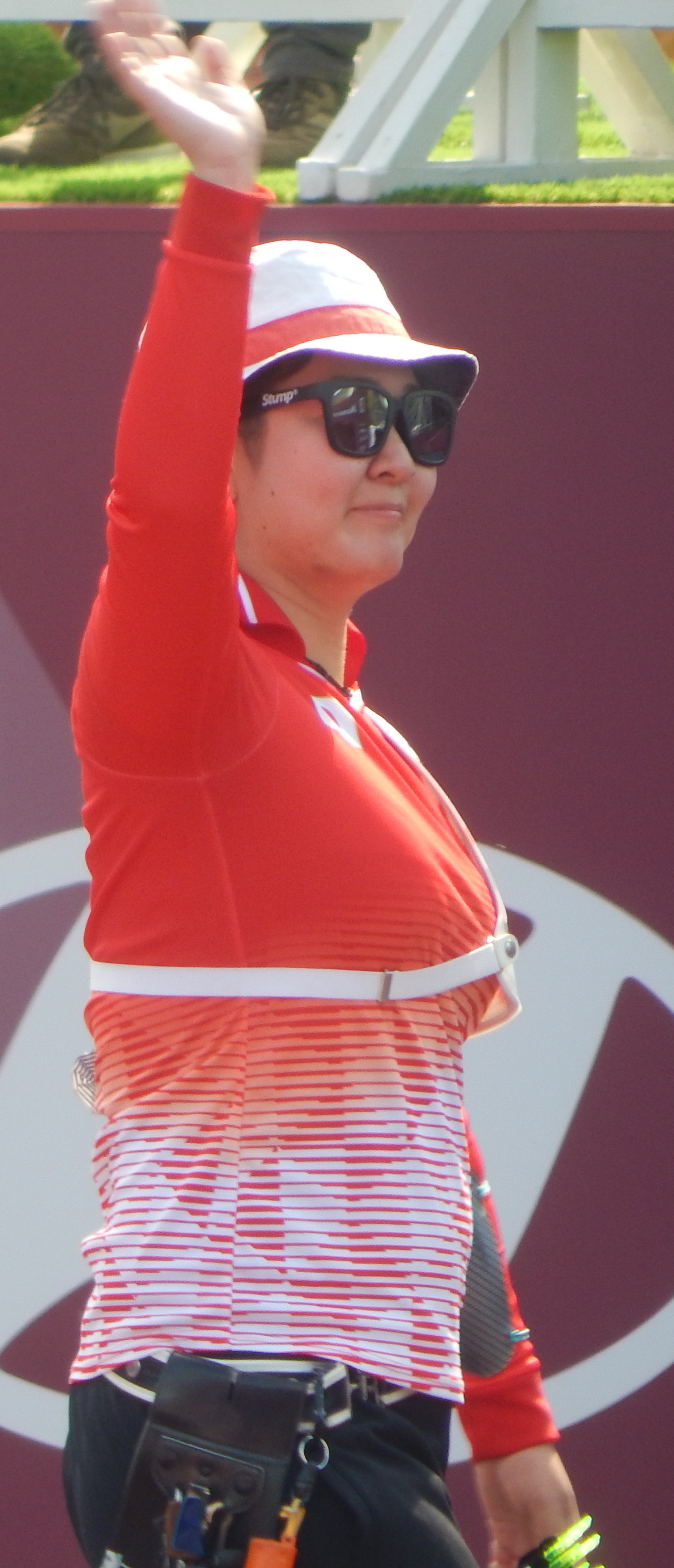 2019 Archery World Cup Final in Moscow. Women's Recurve.